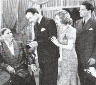 Shot from the 1936 film, Grand Jury